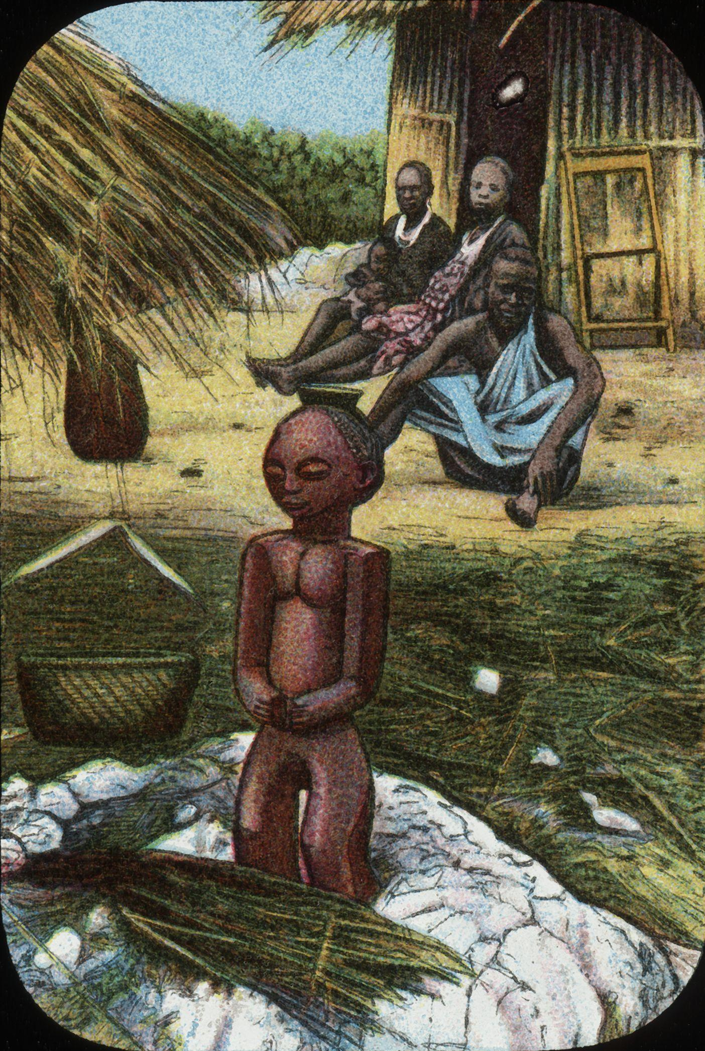 Fetish image, by the London Missionary Society. Pseudonymous, circa 1900.